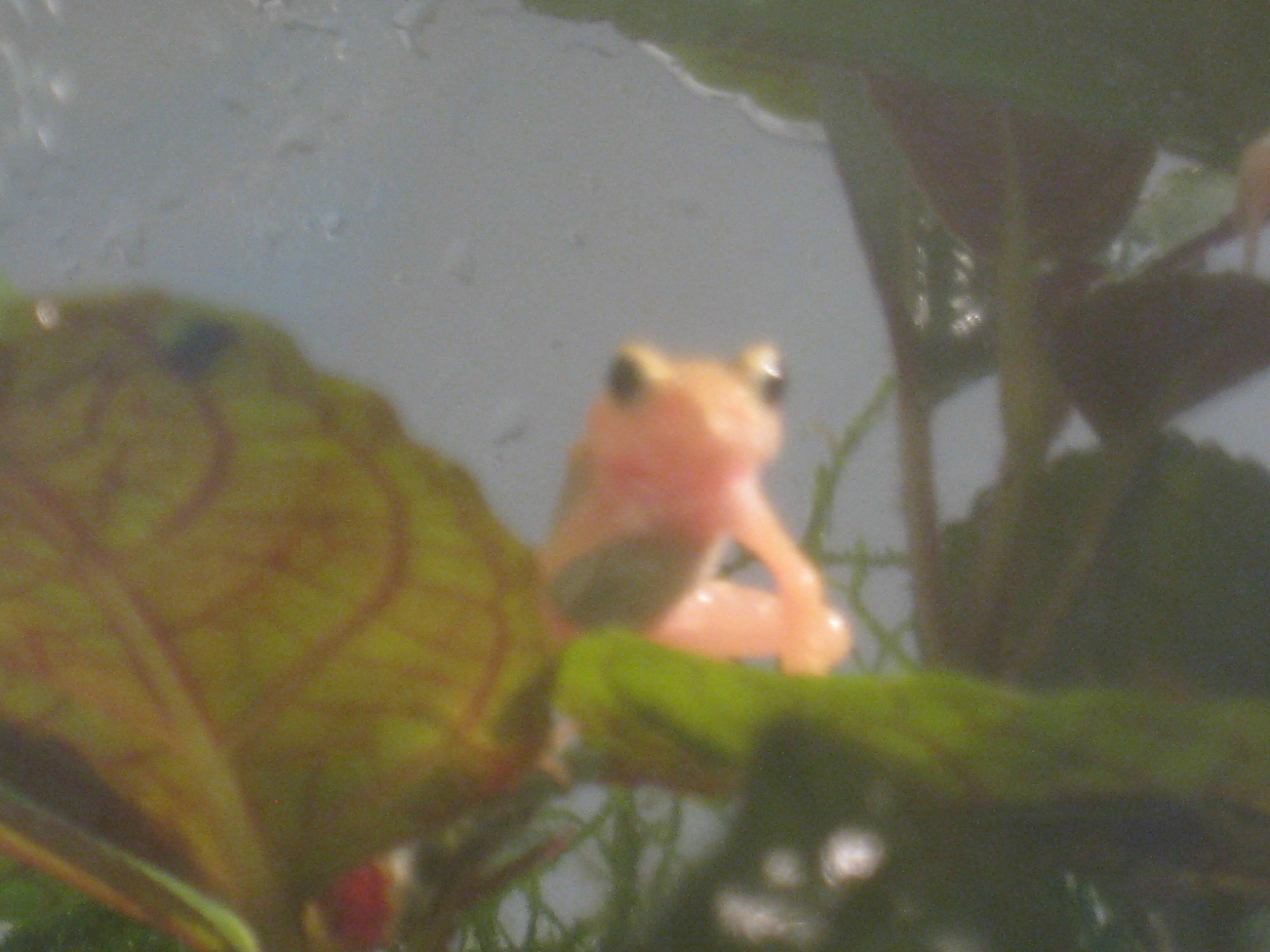 Photo of the Critically Endangered Kihansi Spray Toad (Nectophrynoides asperginis), taken at the Toledo Zoo.